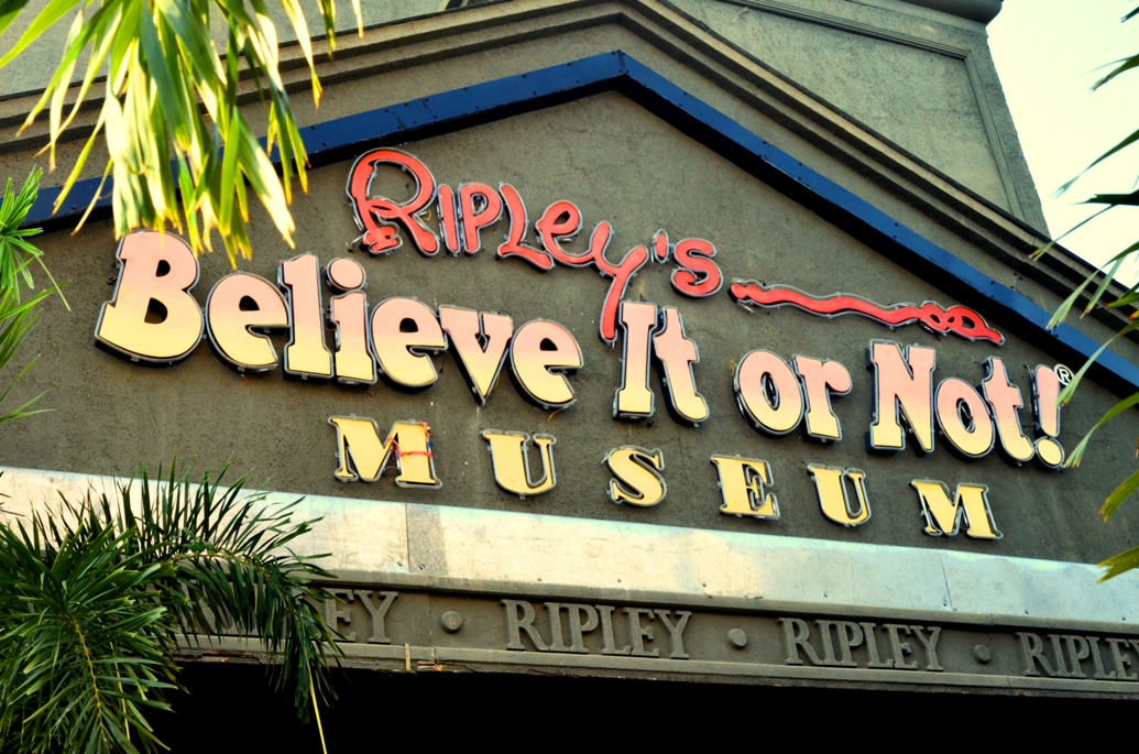 Ripley's Believe It Or Not museum at Innovative Film City in Bangalore. (Photo - Jim Ankan Deka)